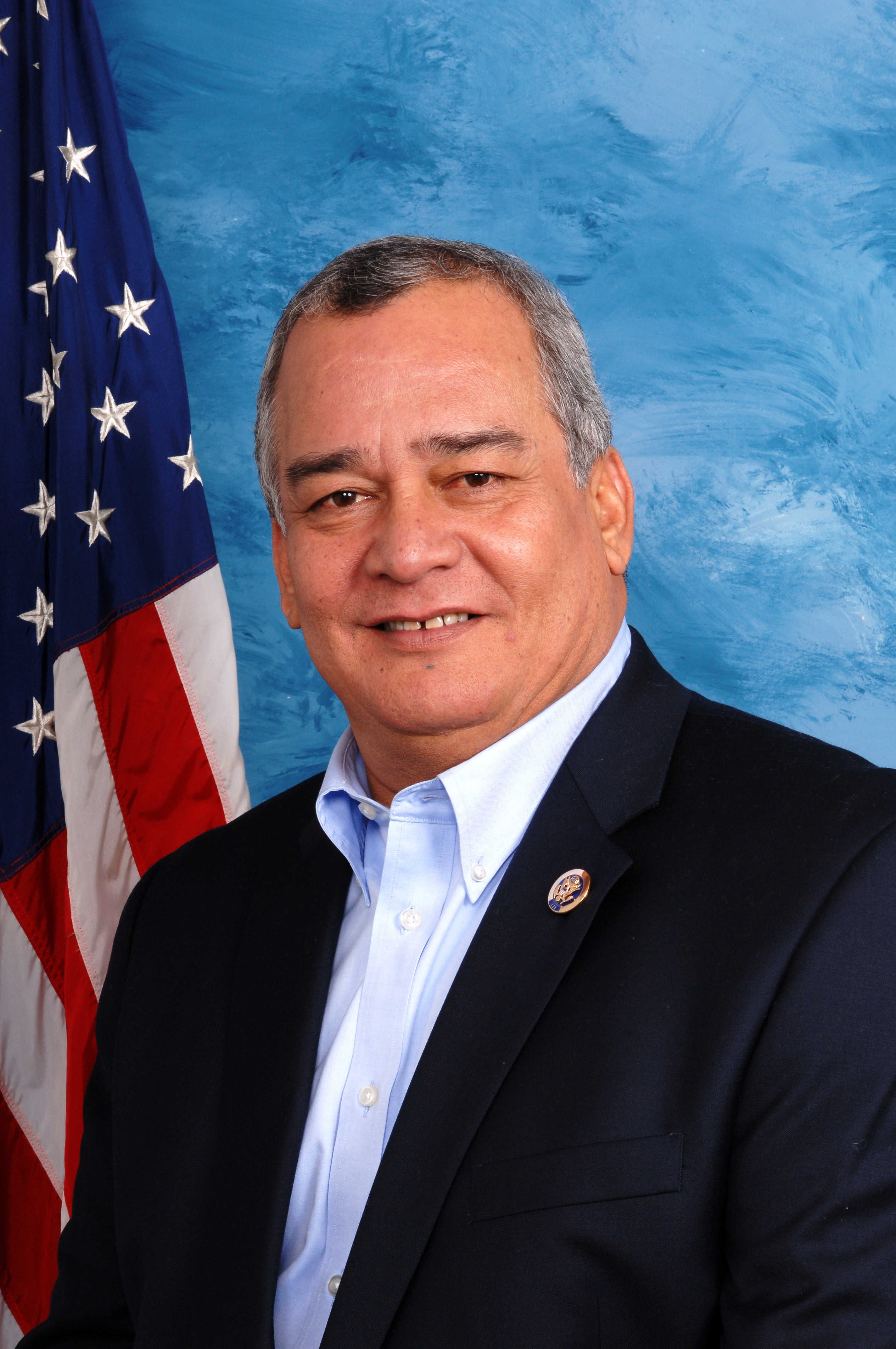 Official Congressional portrait of Rep. Gregorio "Killi" Camacho Sablan (D - Northern Mariana Islands)